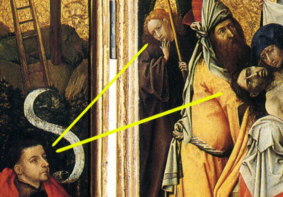 Triptych with the Entombment of Christ Oil on panel, 60 x 48.9 cm (central panel without frame), 60 x 22.5 cm (wing without frame) London, Courauld Institute Galleries